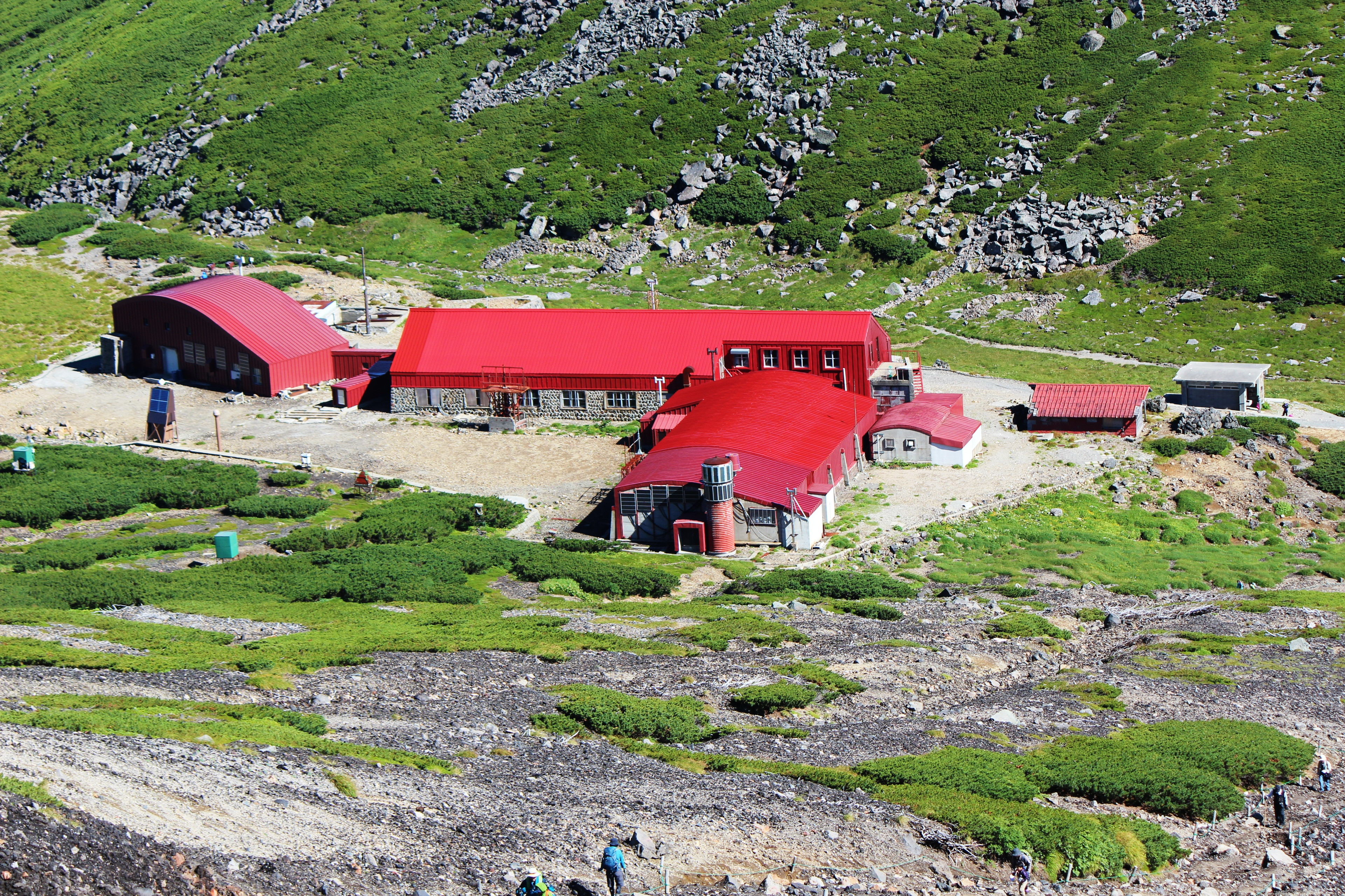 Institute for Cosmic Ray Research of University of Tokyo, Norikura Observatory.